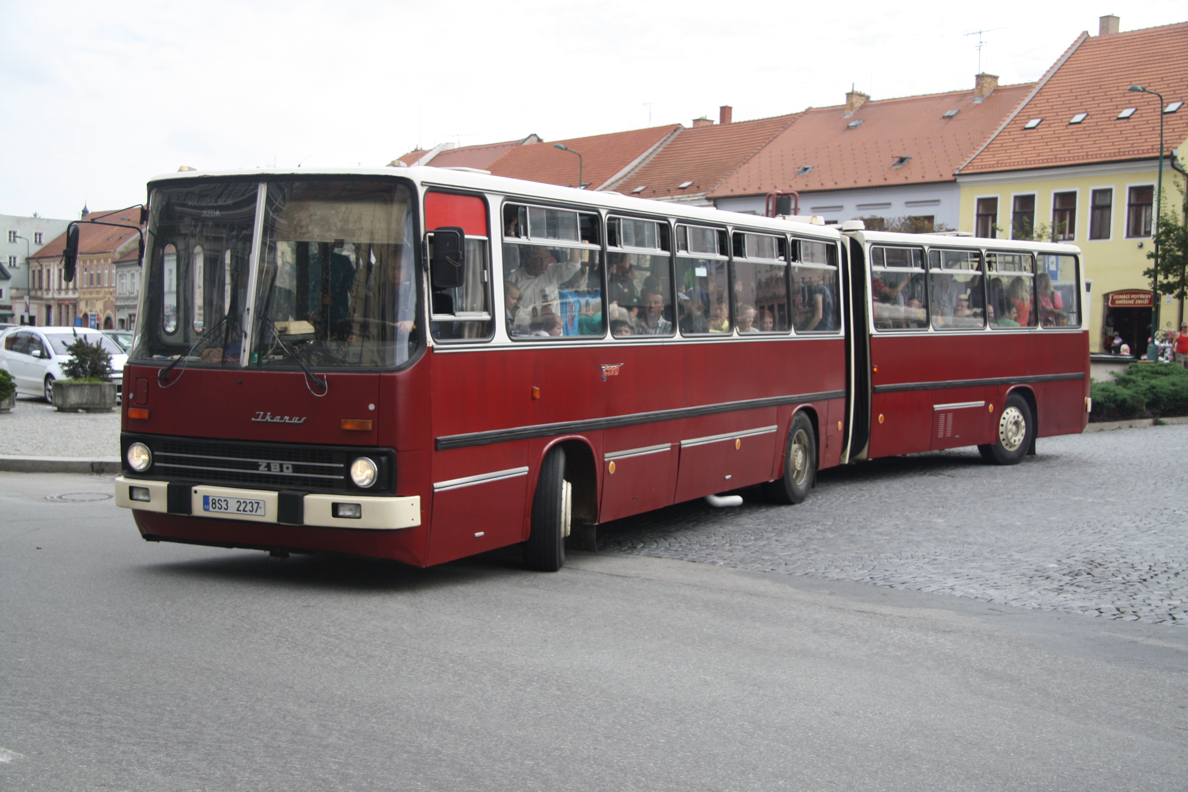 Ikarus 280.08 at celebrate of 60 years of public transport in Třebíč, Třebíč District.